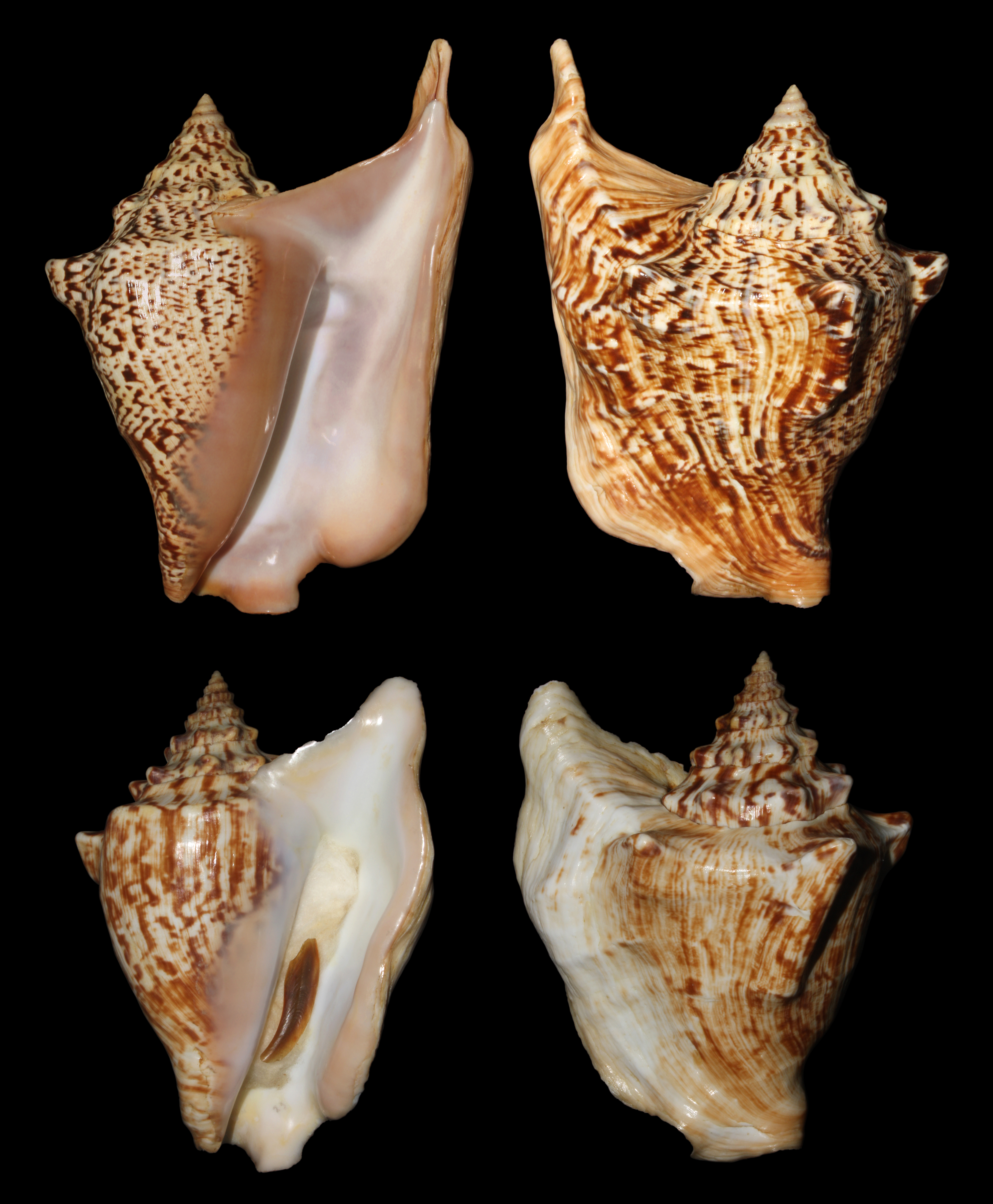 Tricornis tricornis, synonym: Strombus tricornis Lightfoot, 1786. Two shells, 132 mm and 114 mm. Locality largest (upper) shell: Djibouti, Gulf of Aden, East Africa. caught in 1994. Locality smaller shell with operculum: Safaga, Egypt, Red Sea. Caught in 1964.